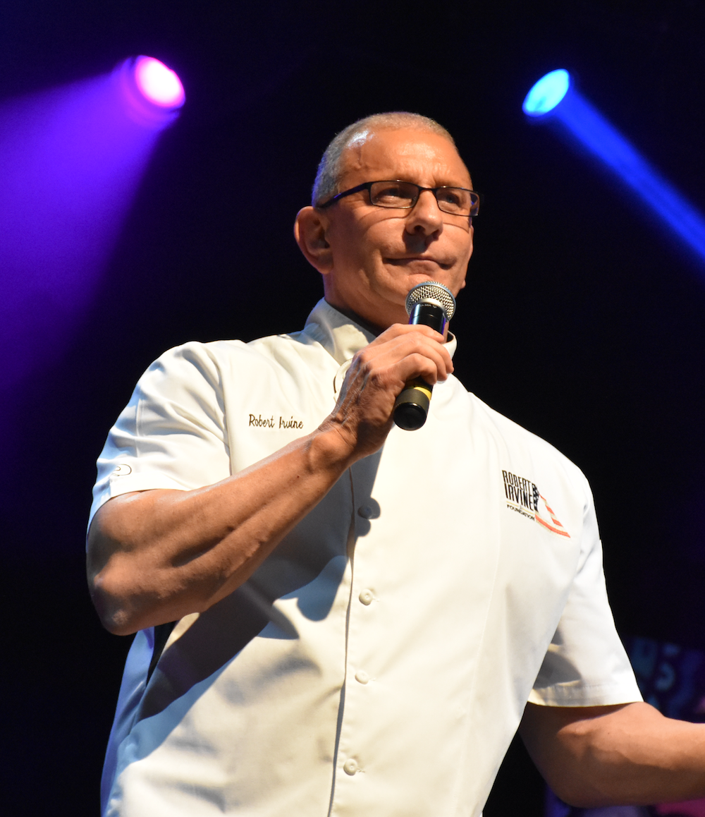 This photo was taken on May 22, 2018, at the Fillmore in Philadelphia, PA, where Irvine hosted the Beats N Eats fundraiser, combining gourmet cuisine and live music for his charity, the Robert Irvine Foundation, which supports military veterans and their families.